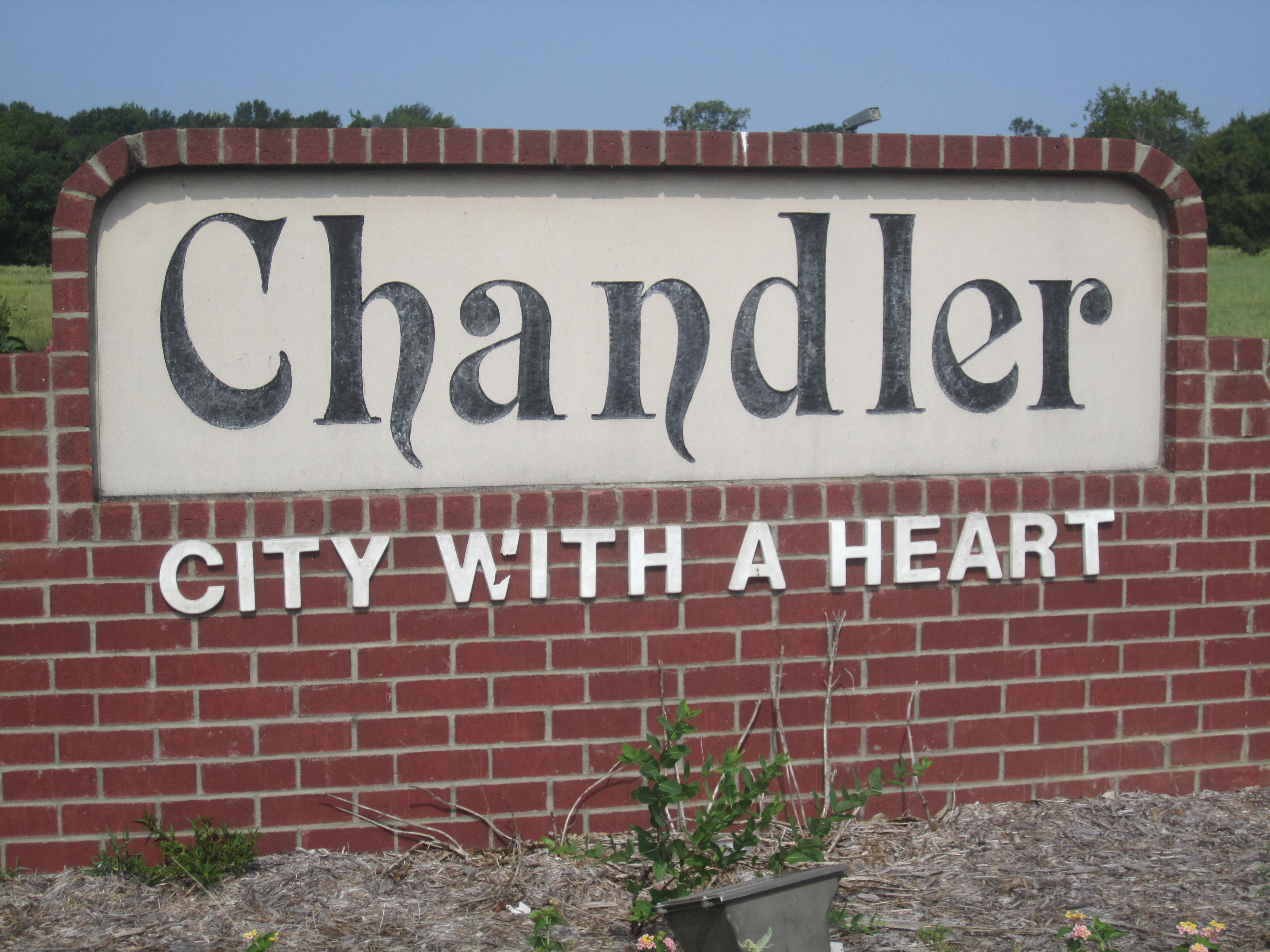 I took photo with Canon camera in Tyler, TX.